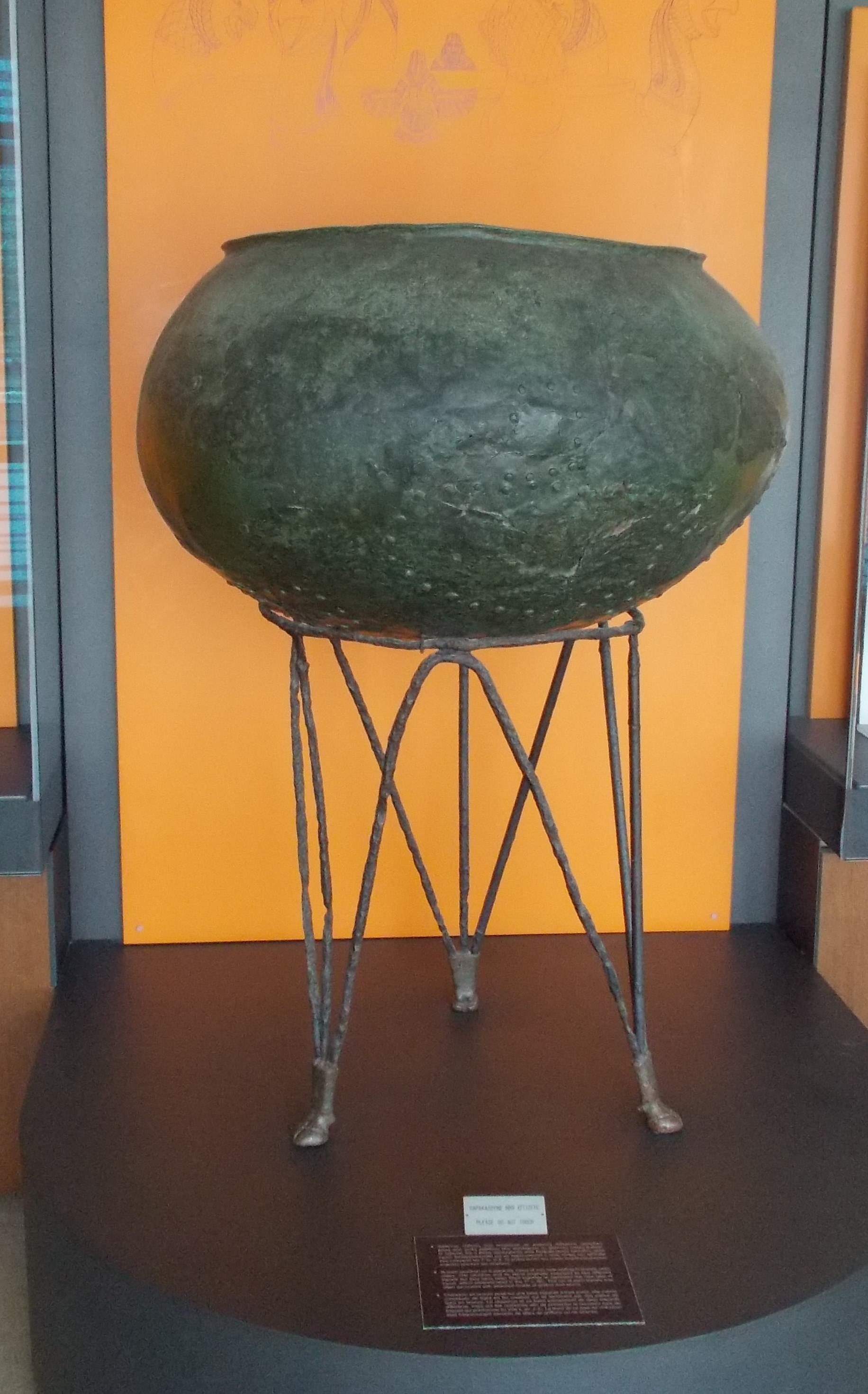 Delphic tripod (Delphi archaeological museum)